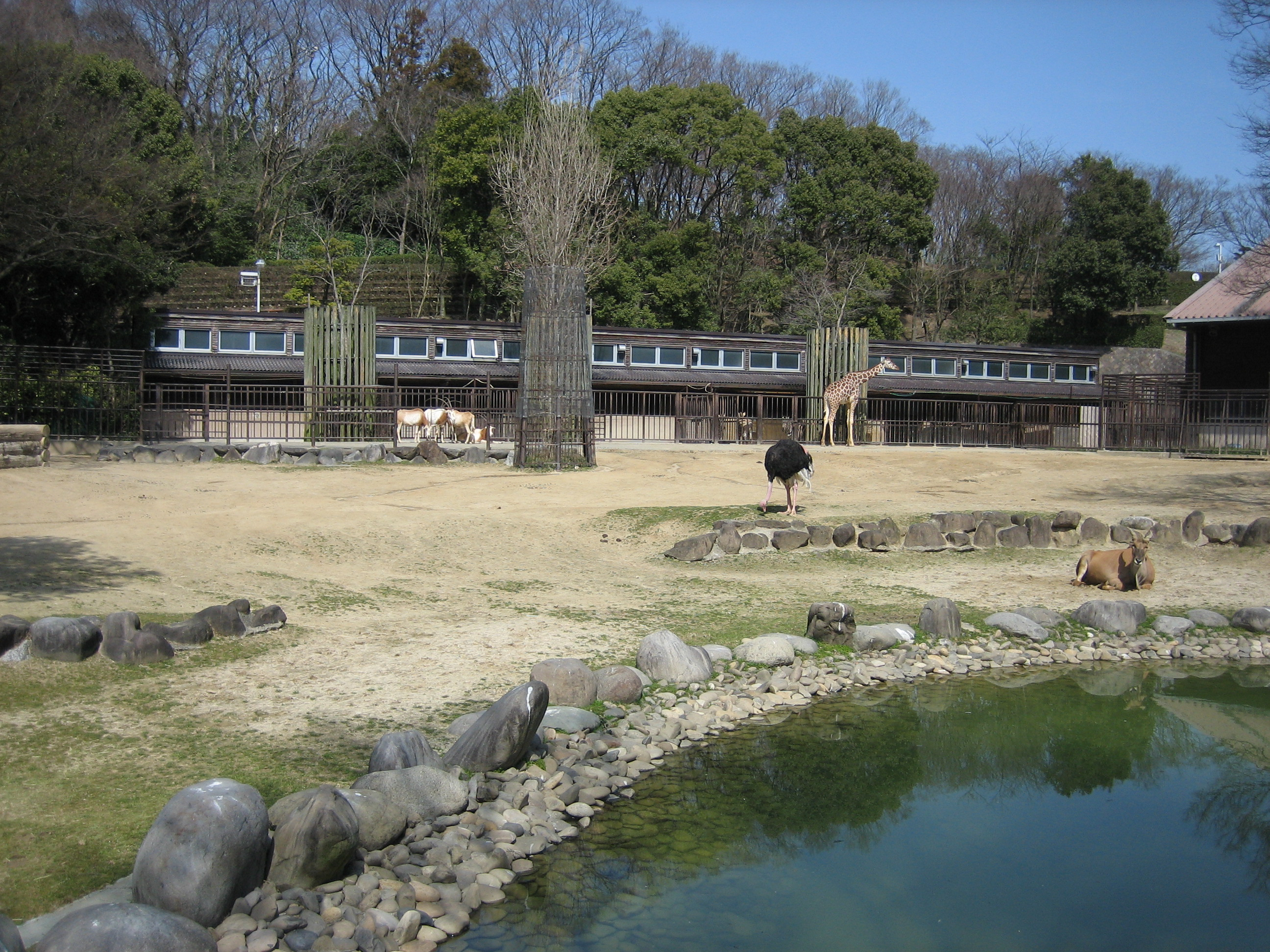 Tobe Zoological Park of Ehime Pref. Tobe-town, Japan.